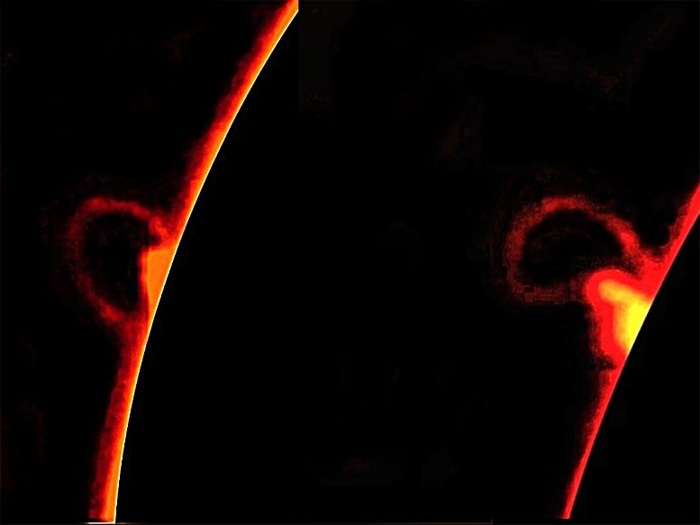 The flare and so called after-flare Solar Prominence.The solar disk was blocked in PS for a better visual effect.